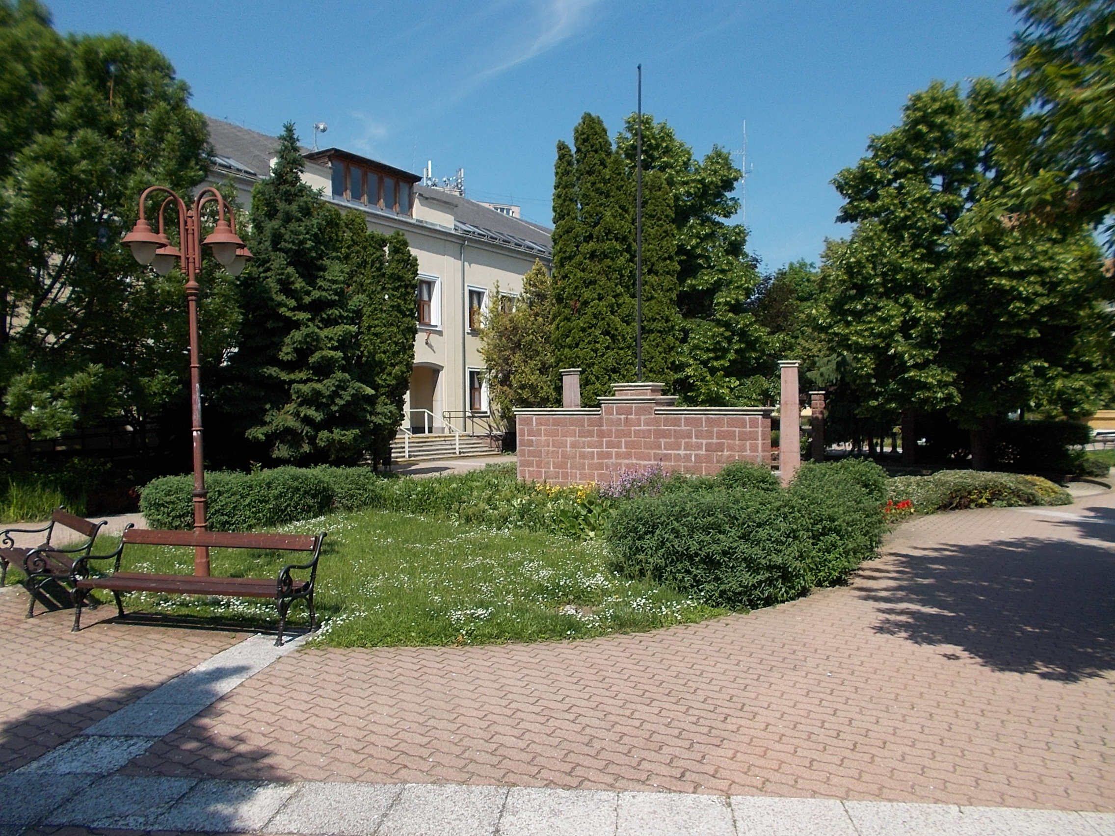 Perczel Mór High School, benches, memorial. - 1 Március 15. park, Downtown, Siófok, Somogy County, Hungary.